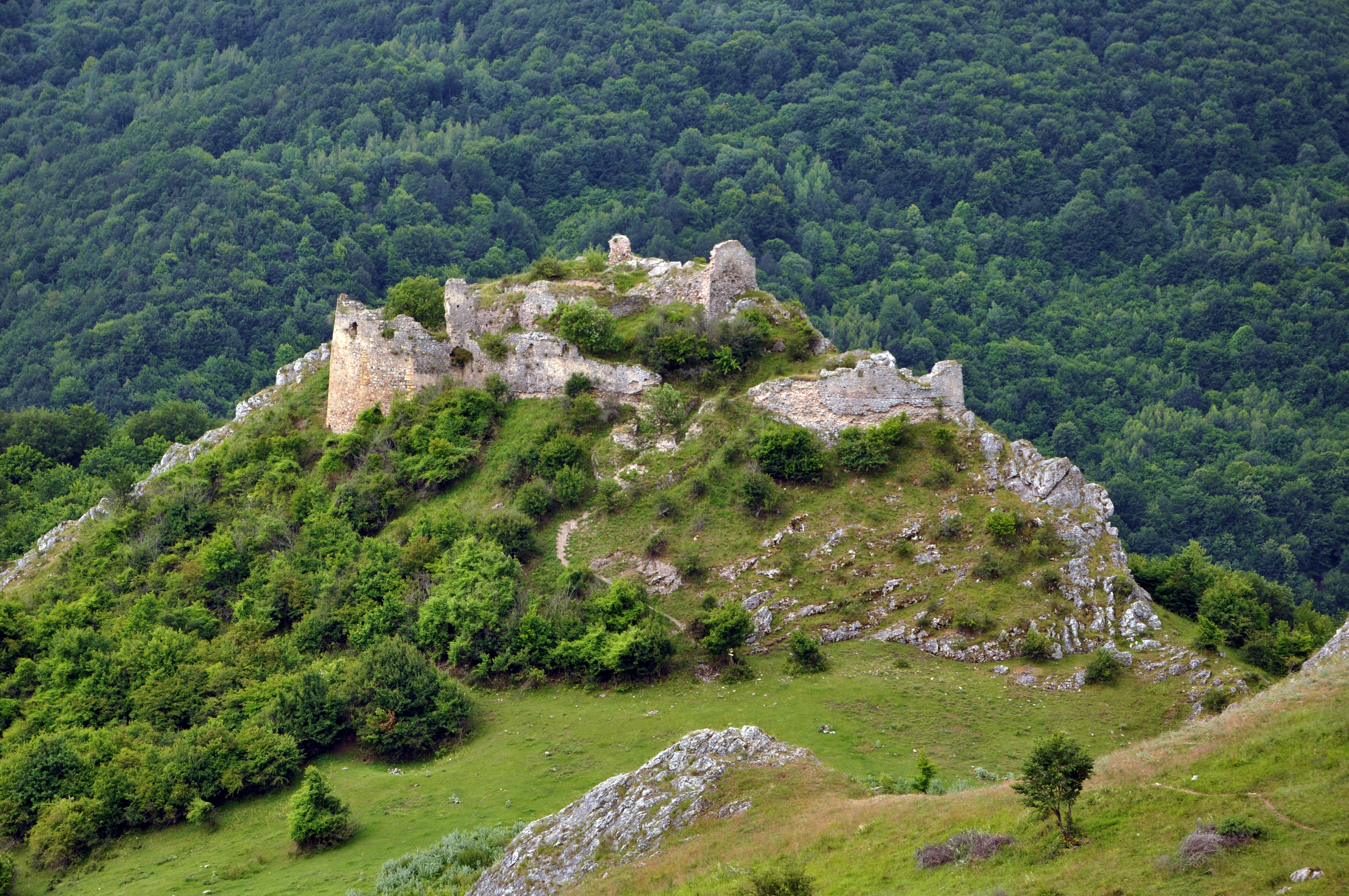 Liteni, 2014 01